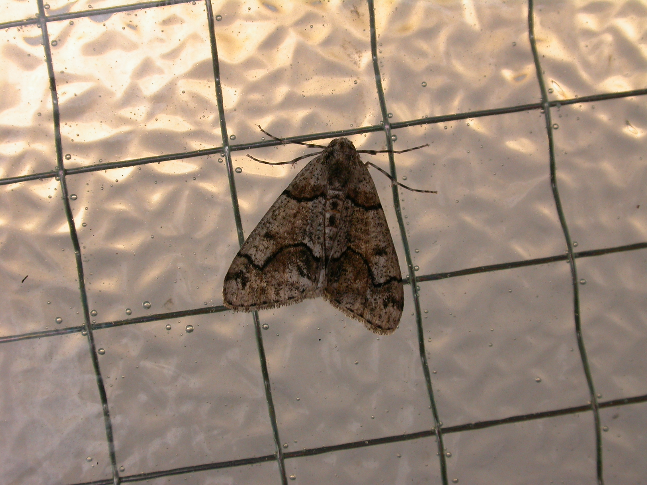 Gabriola dyari Taylor, 1904, Asilomar Conference Grounds, Pacific Grove, CA, USA, 5 December 2012 See A revision of the moth genus Gabriola (Lepidoptera, Geometridae)